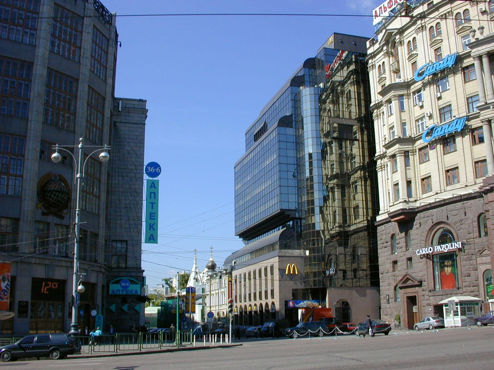 Tverskaya Street (actually beginning of Gazetniy Pereulok, formerly Ogareva Street) in Moscow, Russia.